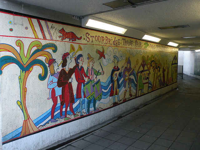 Mural, Elizabeth Way underpass Each of the pedestrian / cycle underpasses under the Elizabeth Way roundabout was decorated with murals as a community project some years ago. They are coated with special varnish to make graffiti easier to remove. This one commemorates Stourbridge Fair, the largest trade fair in medieval Europe.